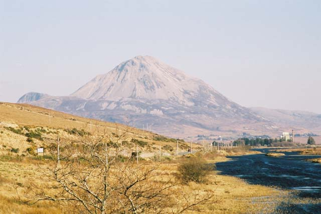 Mount Errigal in County Donegal, Ireland